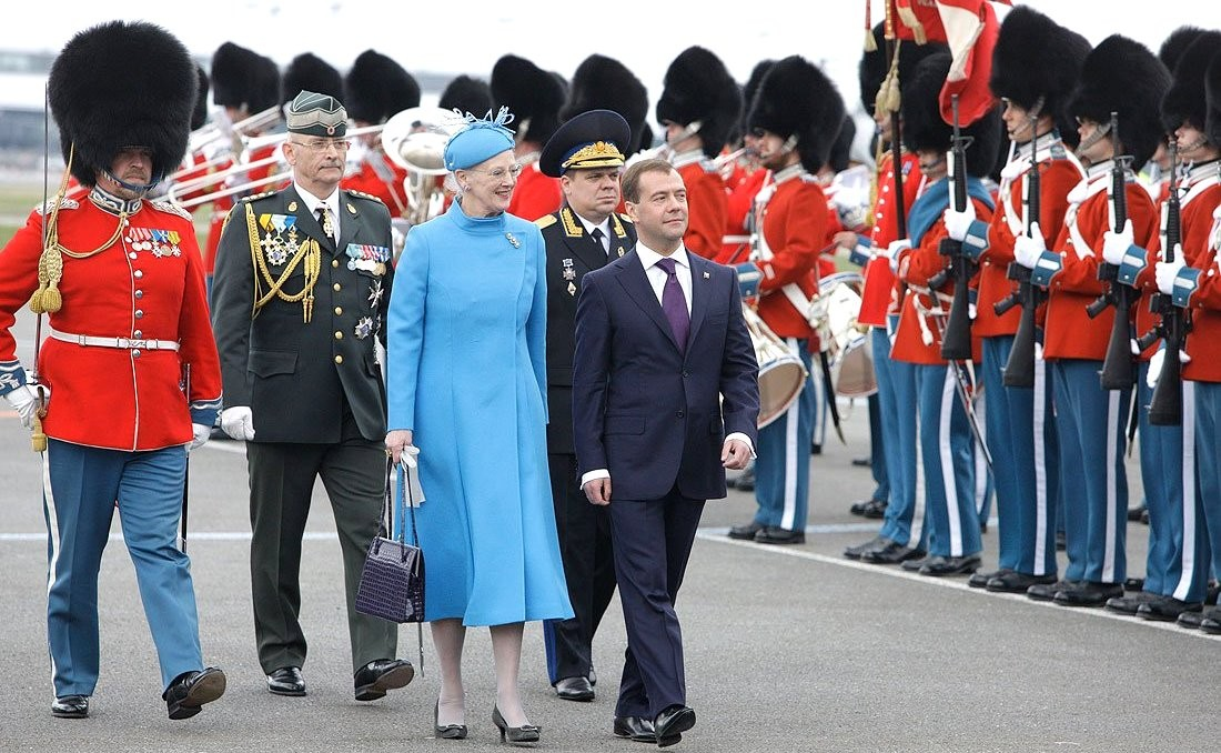 Official greeting ceremony. With Queen Margrethe II of Denmark.